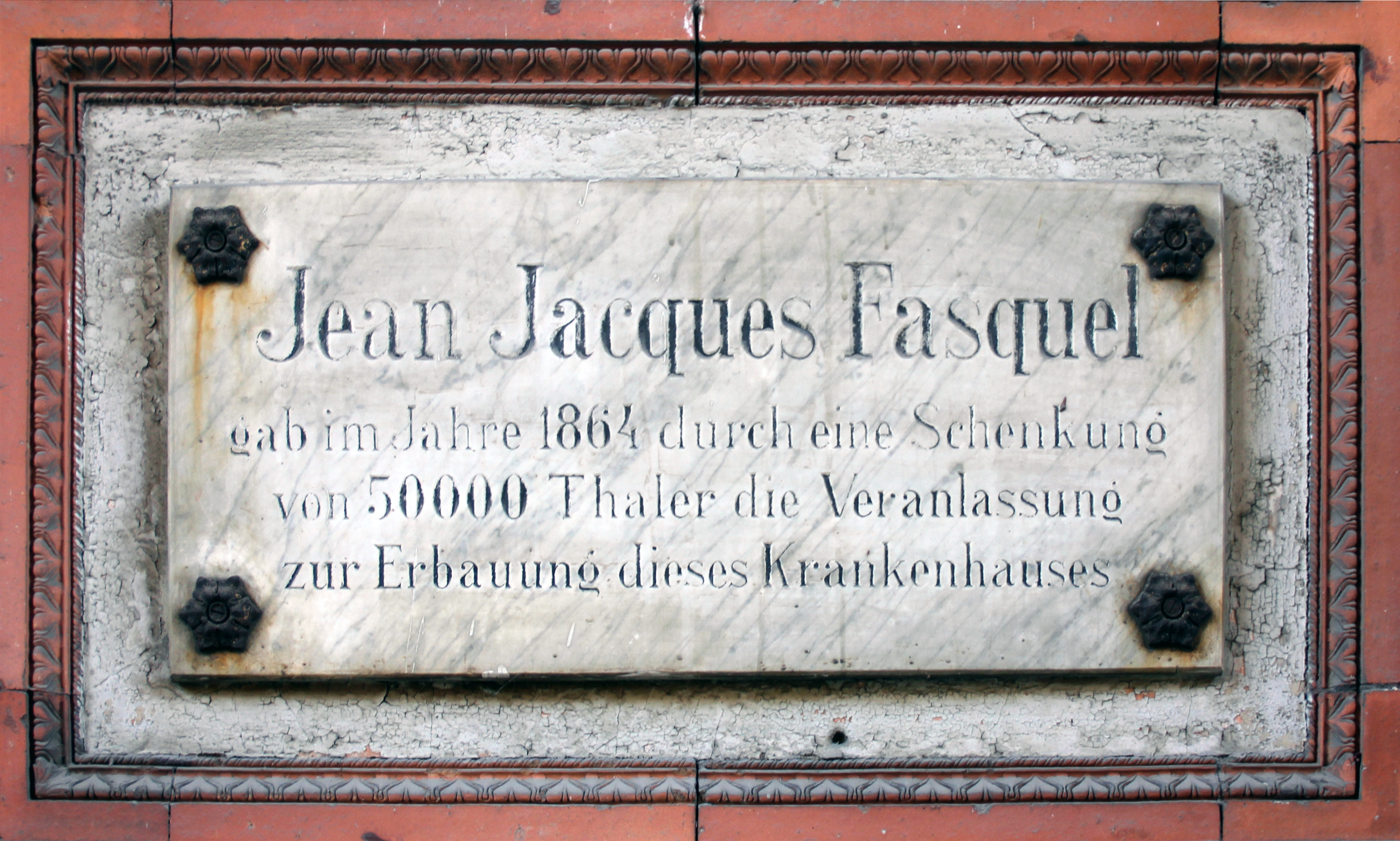 Memorial plaque, Jean Jacques Fasquel, Max-Fettling-Platz, Berlin-Friedrichshain, Deutschland